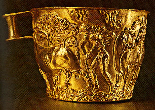 Mycenaen golden cup from Vafeio, Laconia. Approximately first half of 15th century B.C.